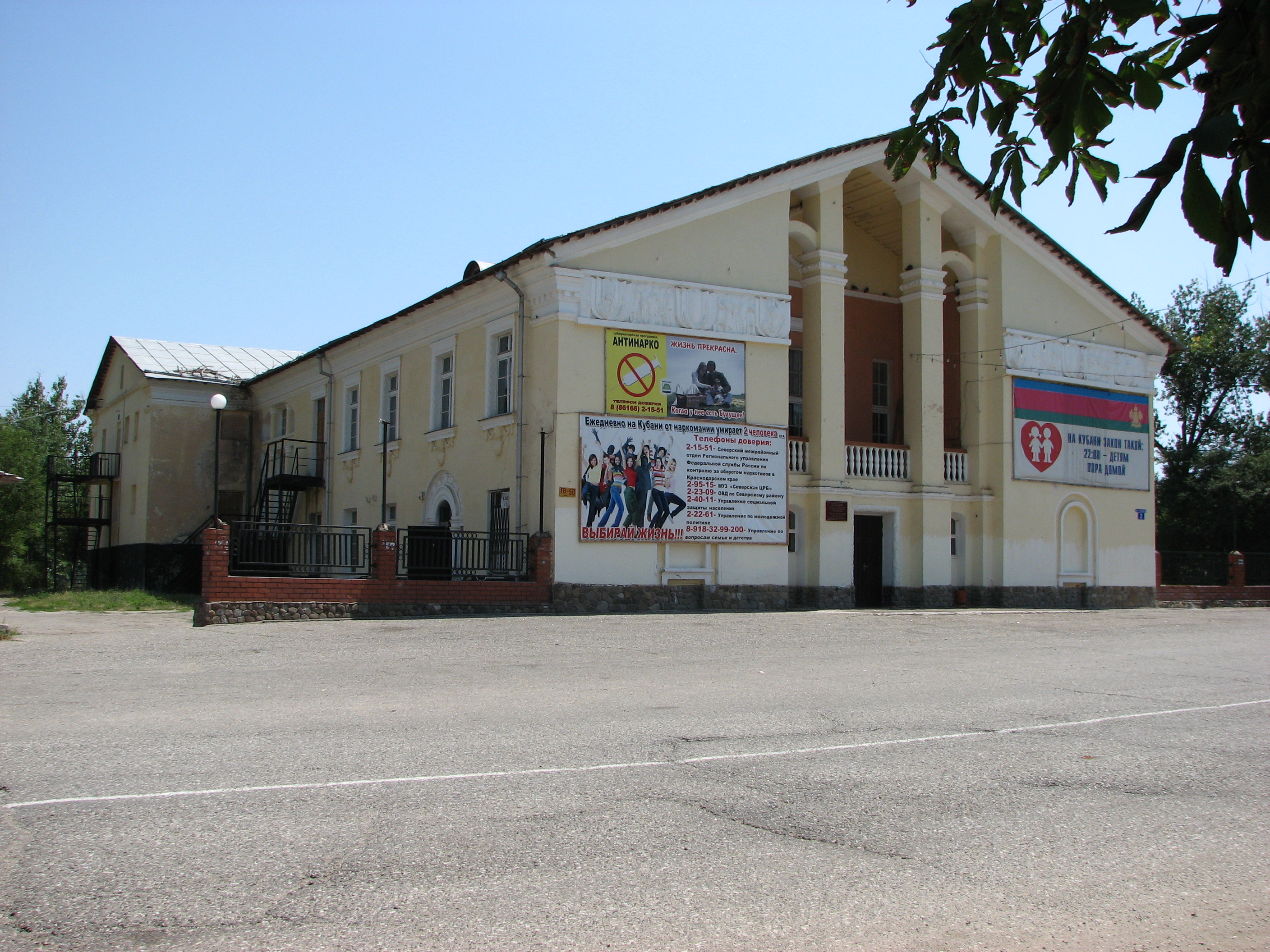 Дом культуры